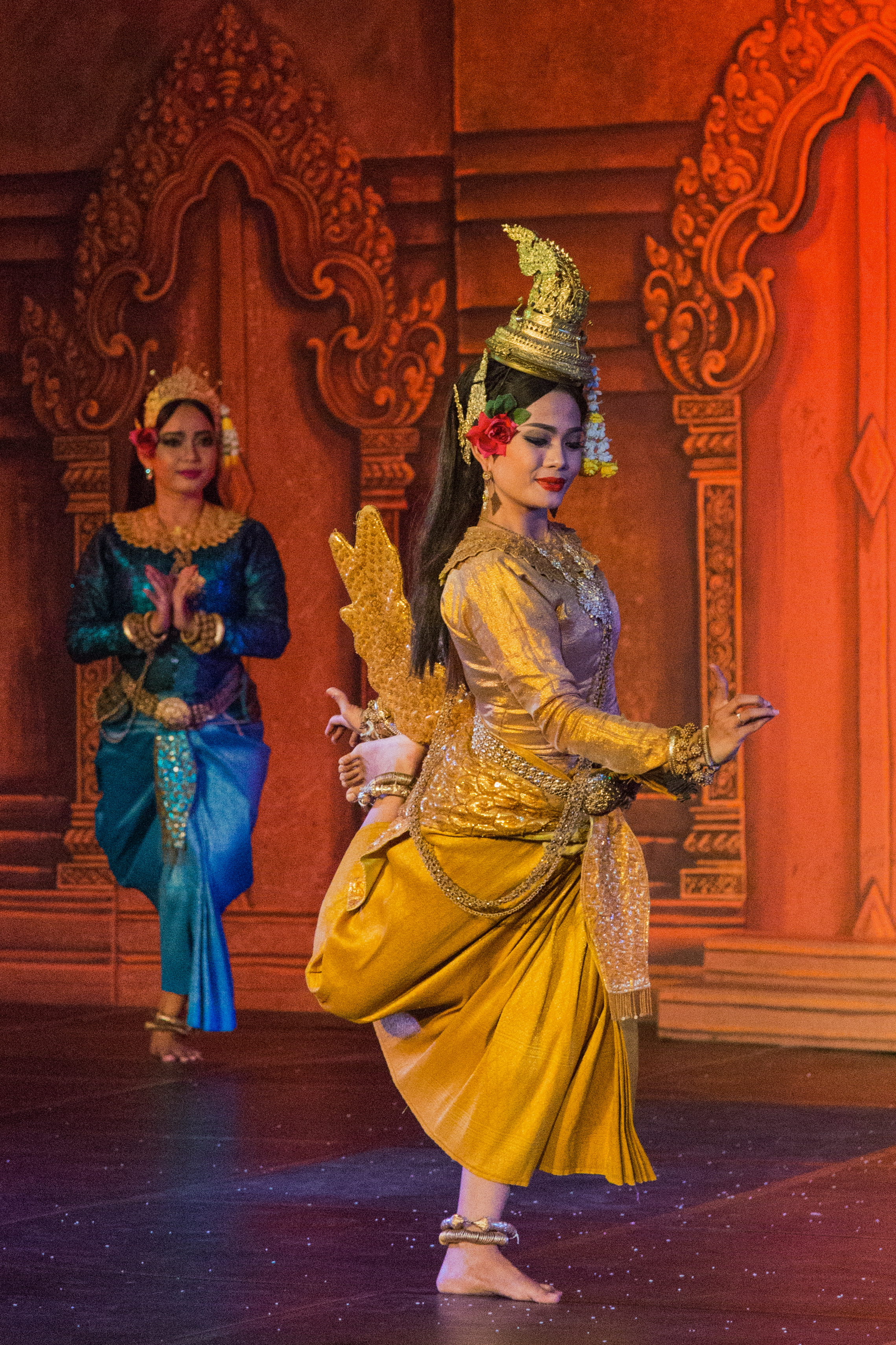 Traditional Cambodian Dance Show - Golden Mermaid Dance. Phnom Penh, Cambodia.